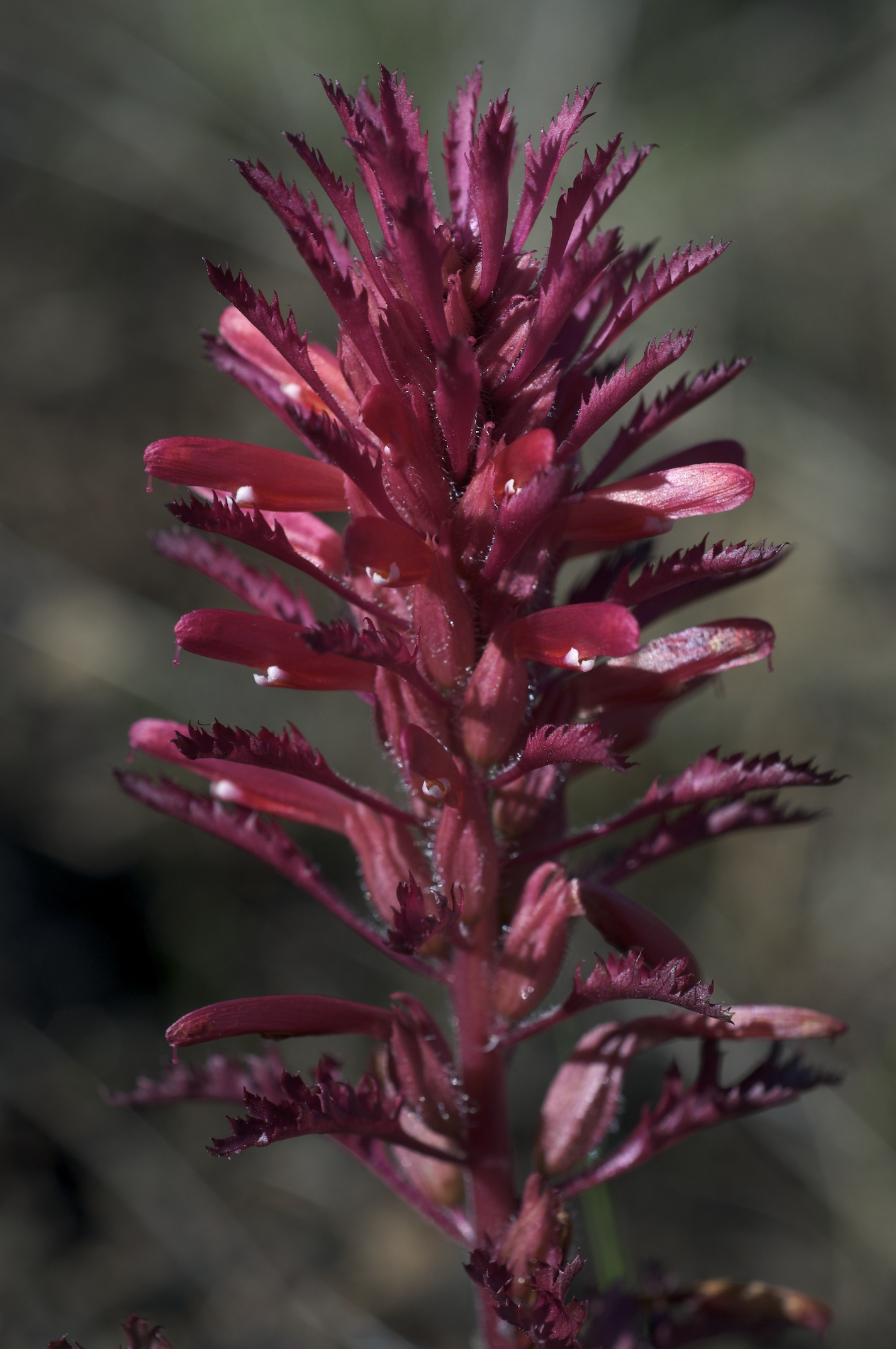 Pedicularis densiflora — common name: Indian Warrior. Taken on Butts Canyon Road, Lake County, California. Species is native to California and Oregon.